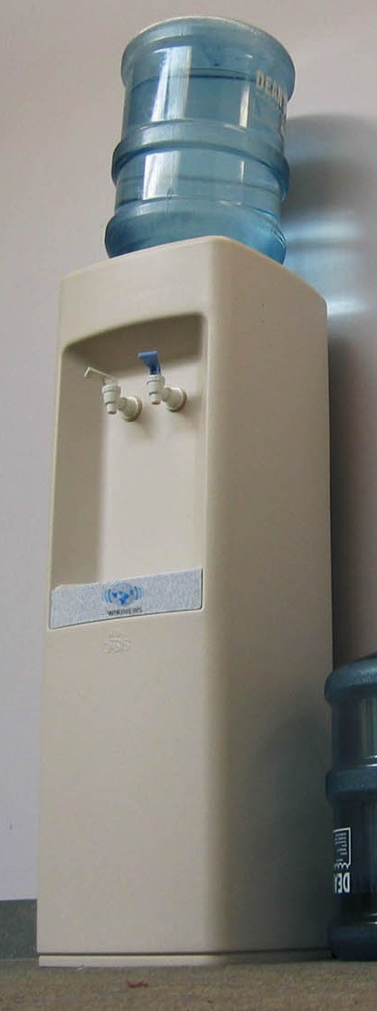 Picture of a water cooler with a little Wikinews logo on it.